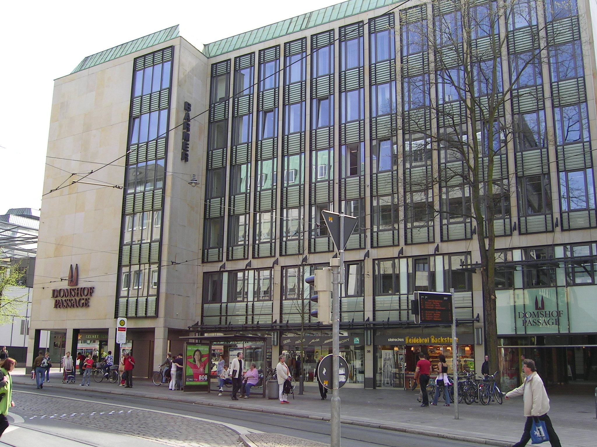 Domshof Passage is a shopping precinct near Deutsche Bank in Bremen